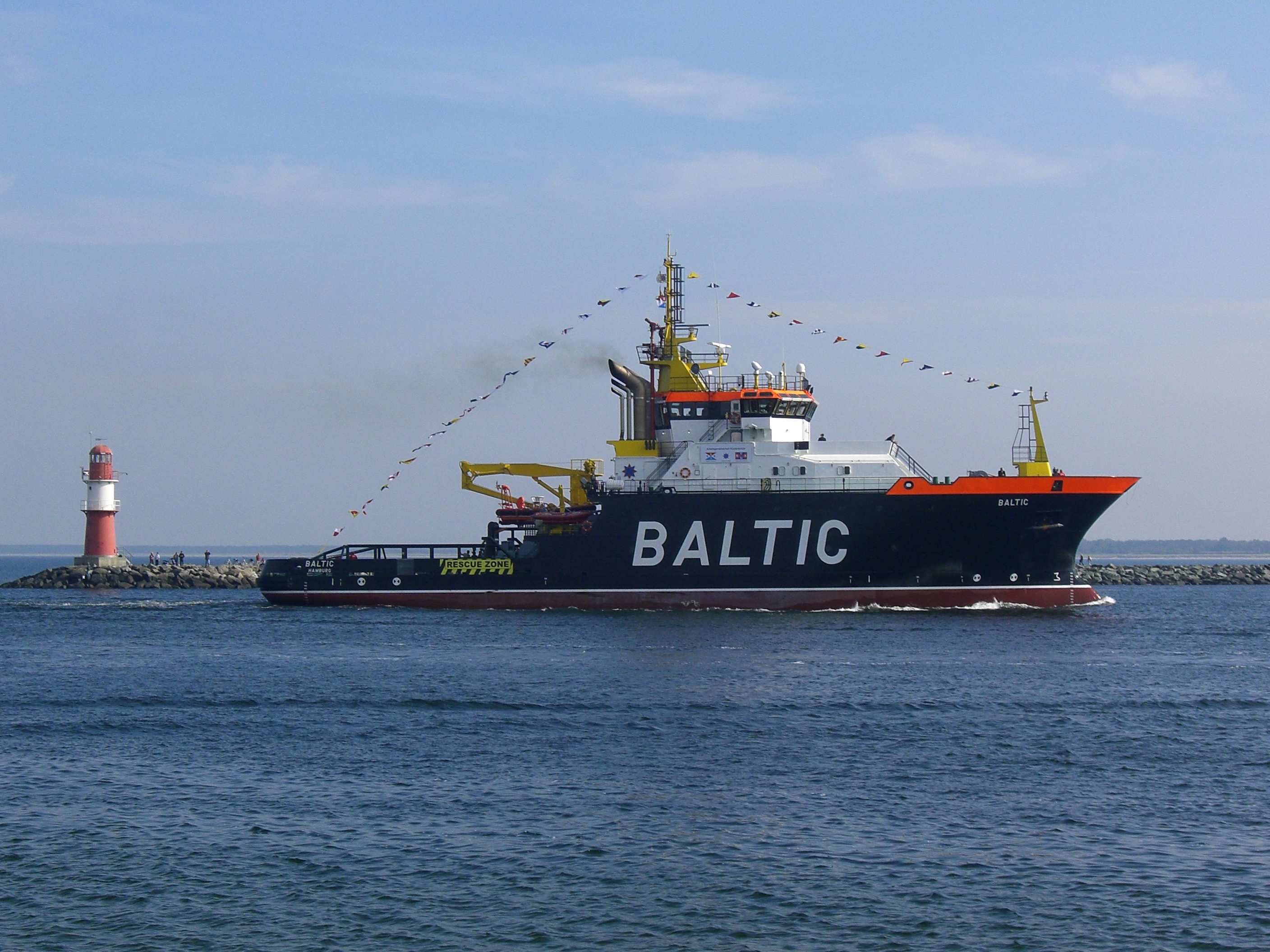 Emergency tow vessel Baltic sails into Warnemünde port IMO Number: 9556026 MMSI Number: 218413000 Callsign: DGWJ2 Length: 66 m Beam: 14 m